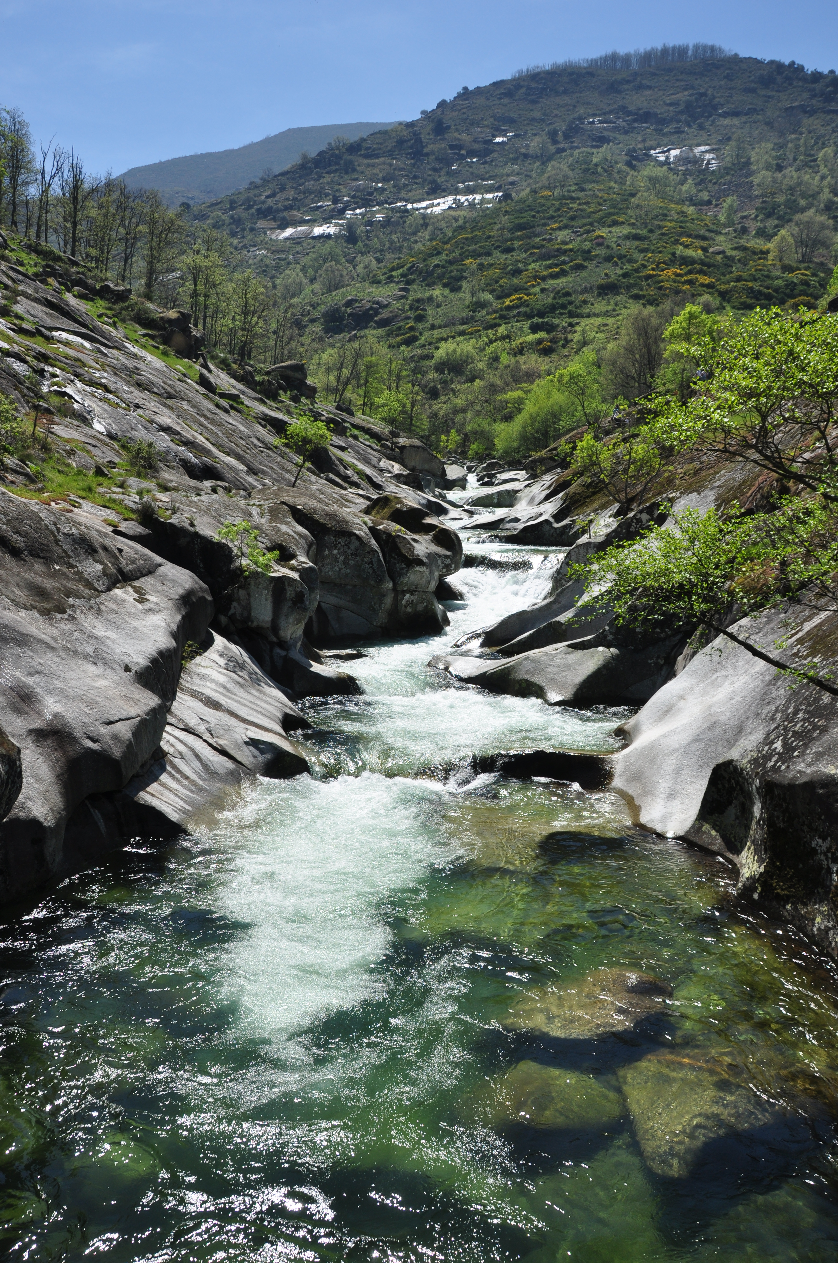 This is a photography of a Site of Community Importance in Spain with the ID: ES4320038. Natura2000 entry, EEA entry